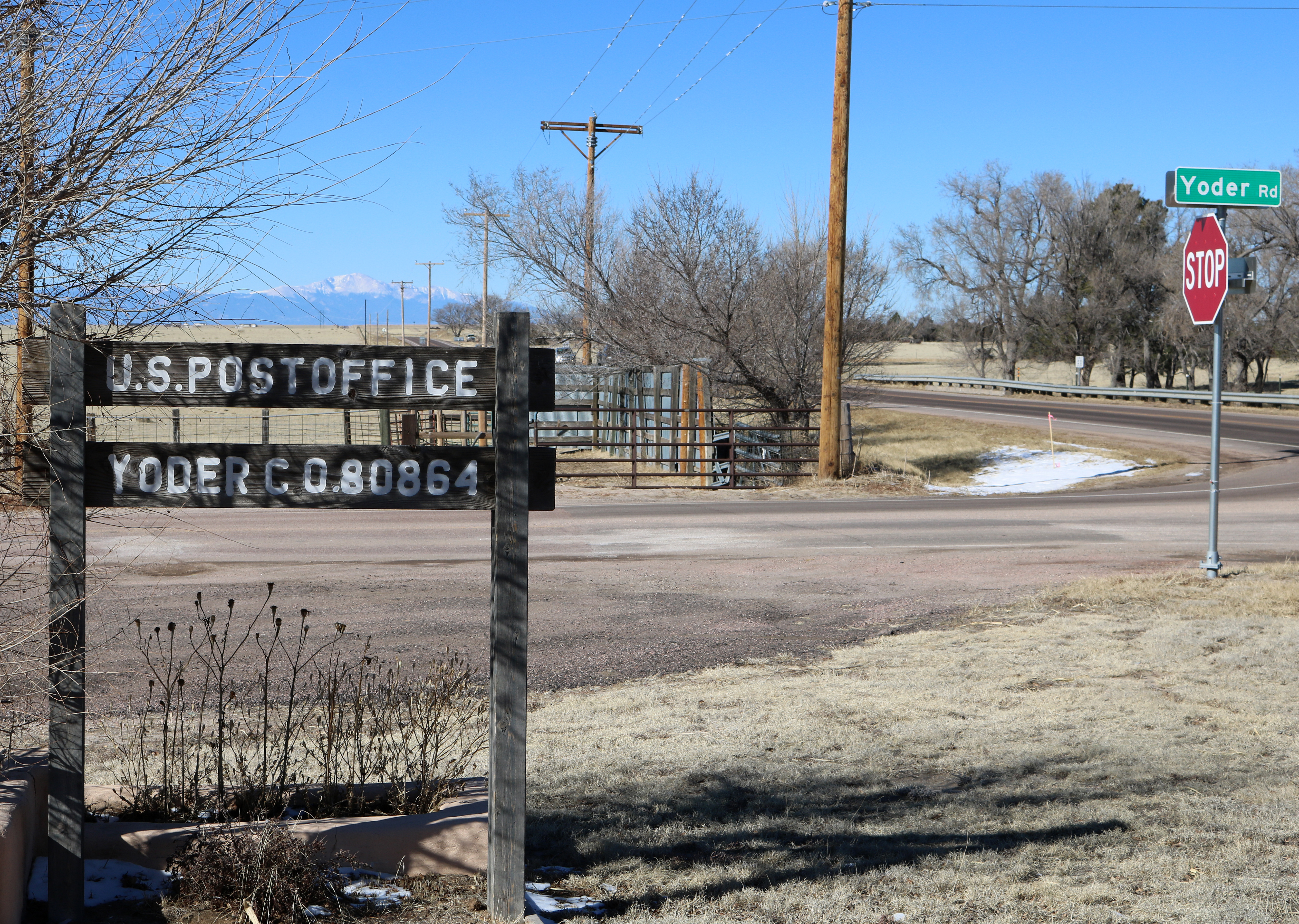 Yoder, Colorado, an unincorporated community in El Paso County. The picture shows the sign for the Yoder post office (not visible in photo). The view is to the west, and Pikes Peak is visible in the distance. The road to the right of the stop sign is Colorado State Highway 94.